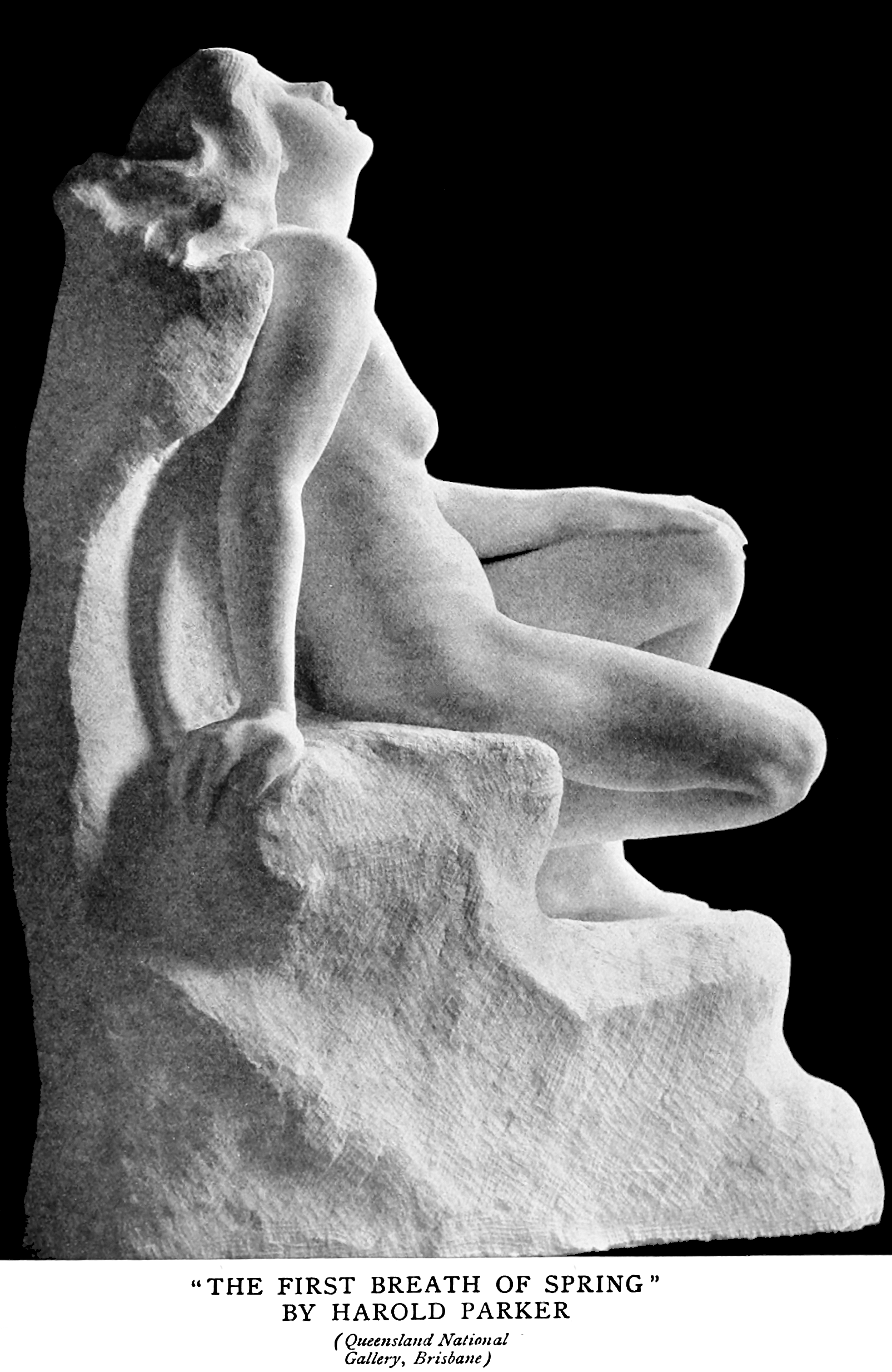 Harold Parker (1873-1962) - The First Breath of Spring (c1913), held by the Queensland Art Gallery